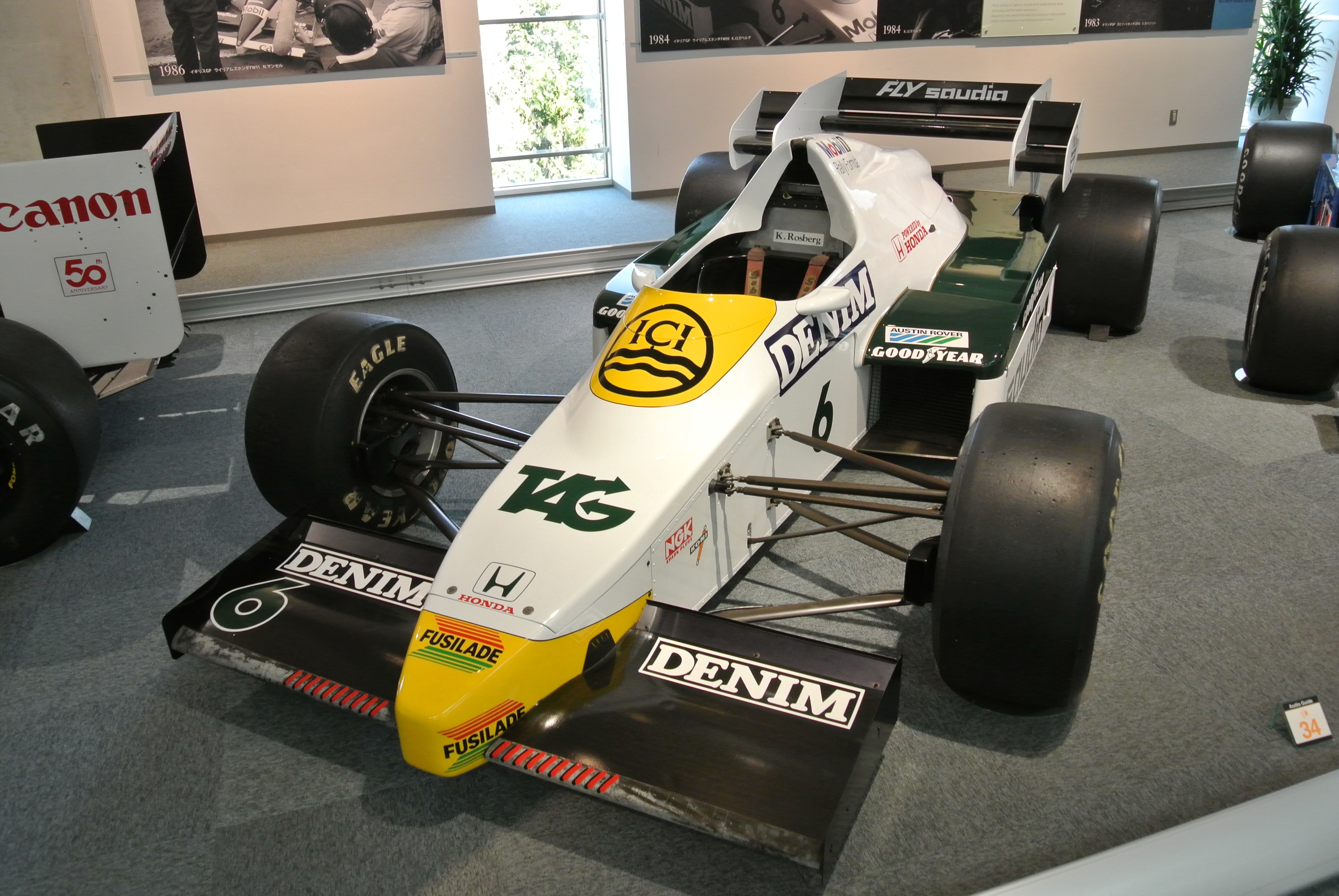 Williams Honda FW09 in the Honda Collection Hall.